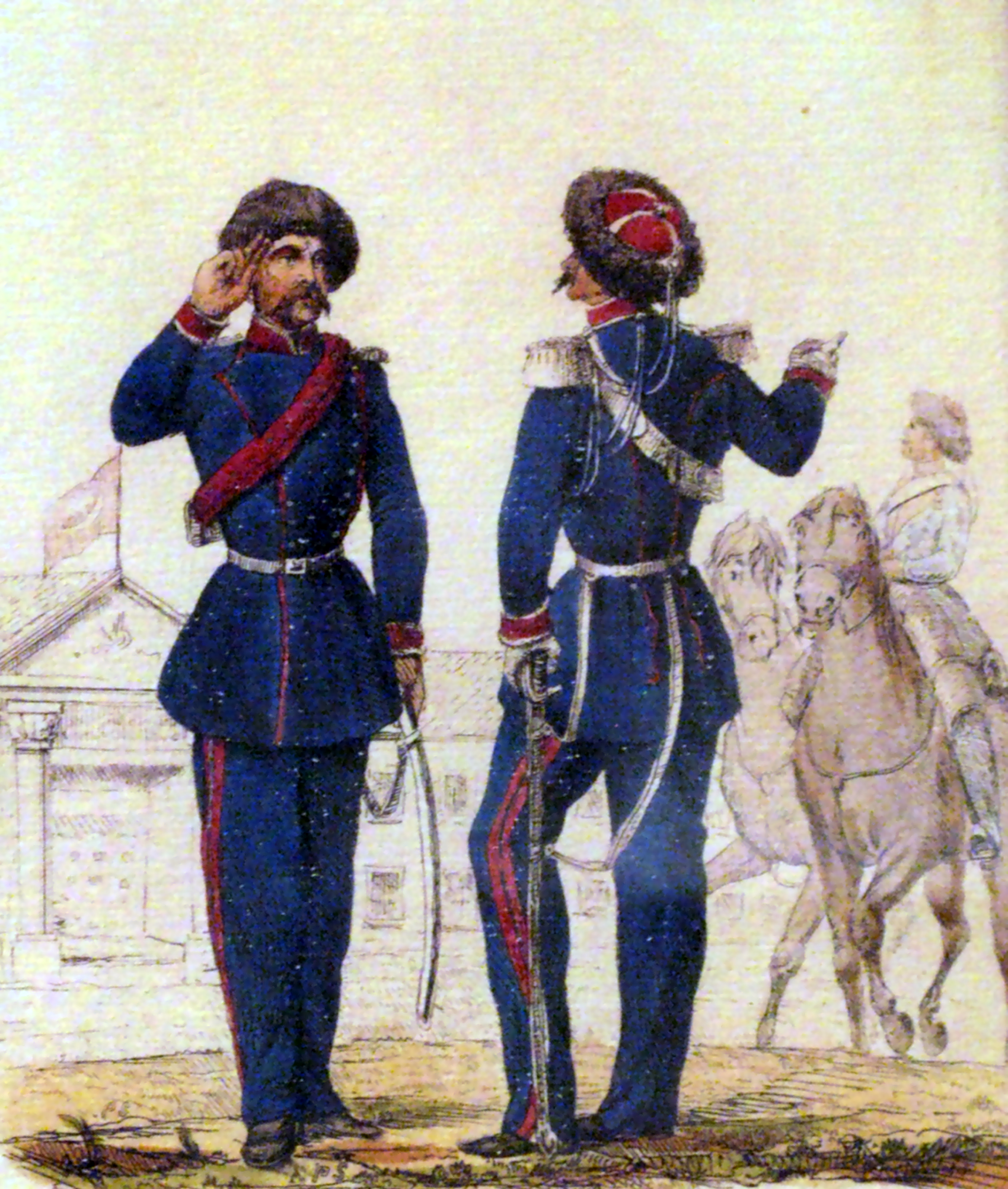 2nd Regiment of Polish Sultan Cossacks